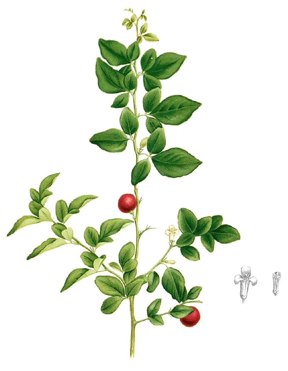 Plate from book